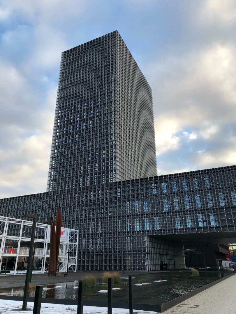 Uni.Lu